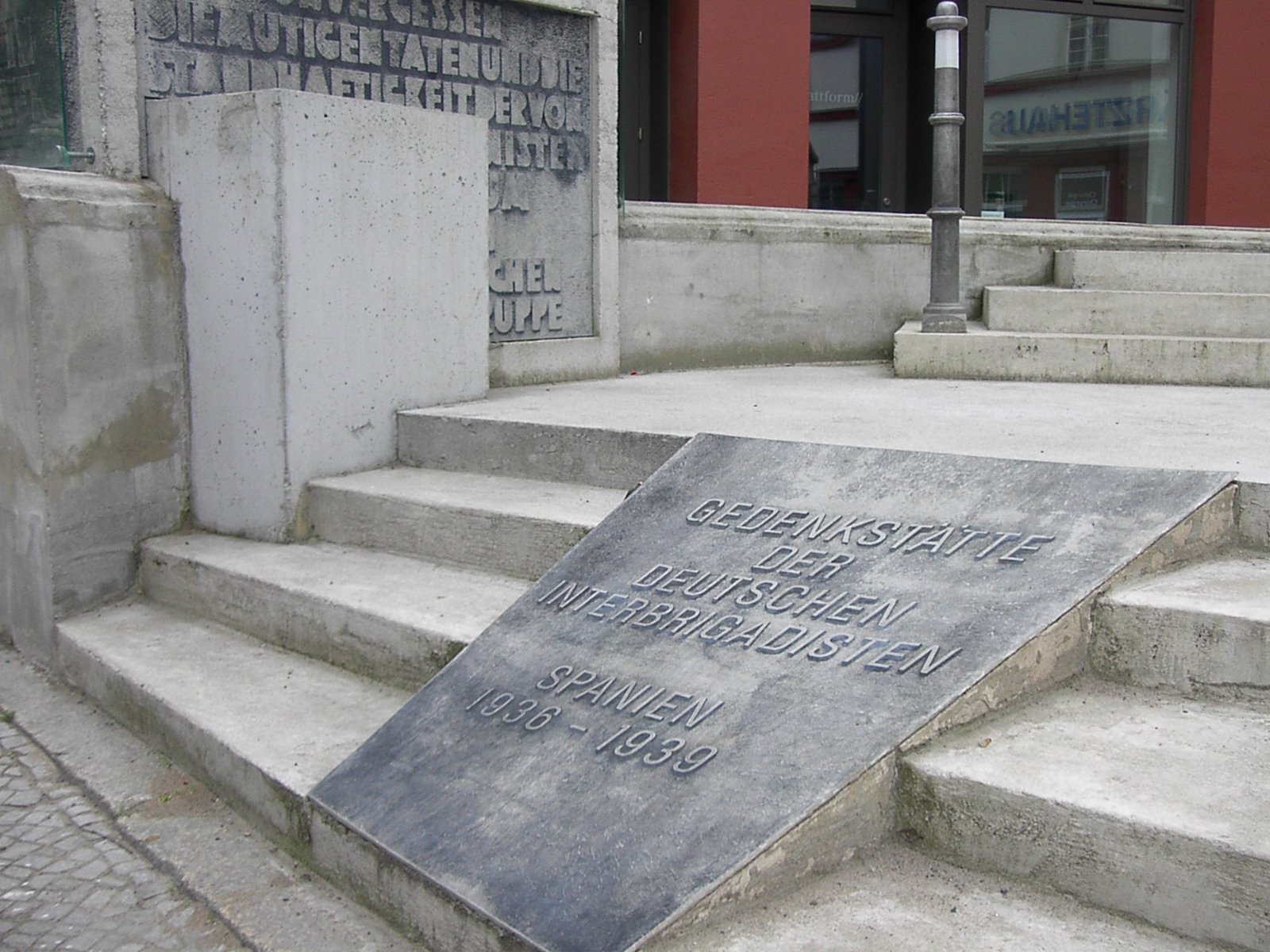 Memorial to the Germans in the International Brigades during the Spanish Civil War. Located in East Berlin.